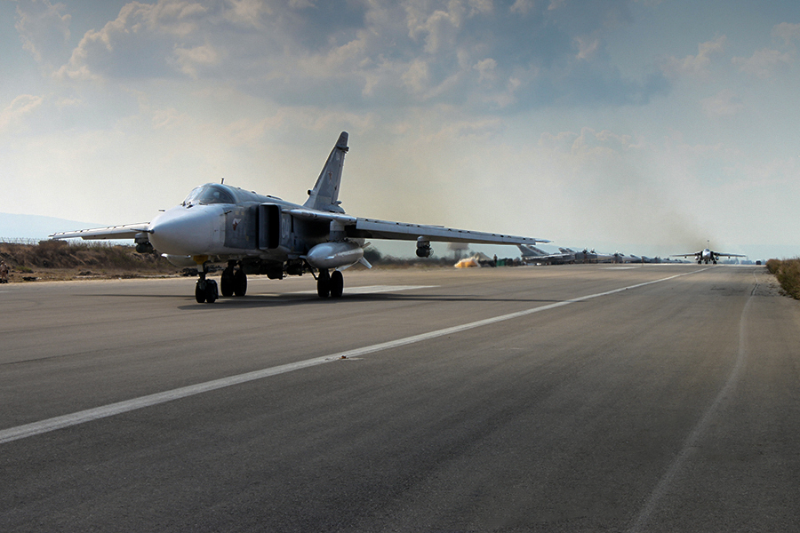 Russian military aircraft at Khmeimim (Хмеймим) Air Base, near Latakia, Syria